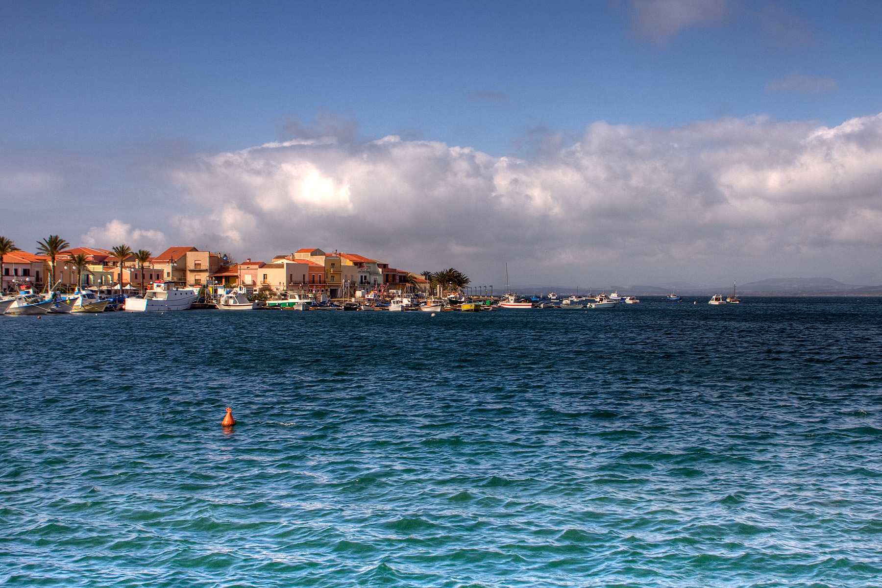 The seafront of the city of Sant'Antioco, on the homonymous island, in Sardinia, Italy